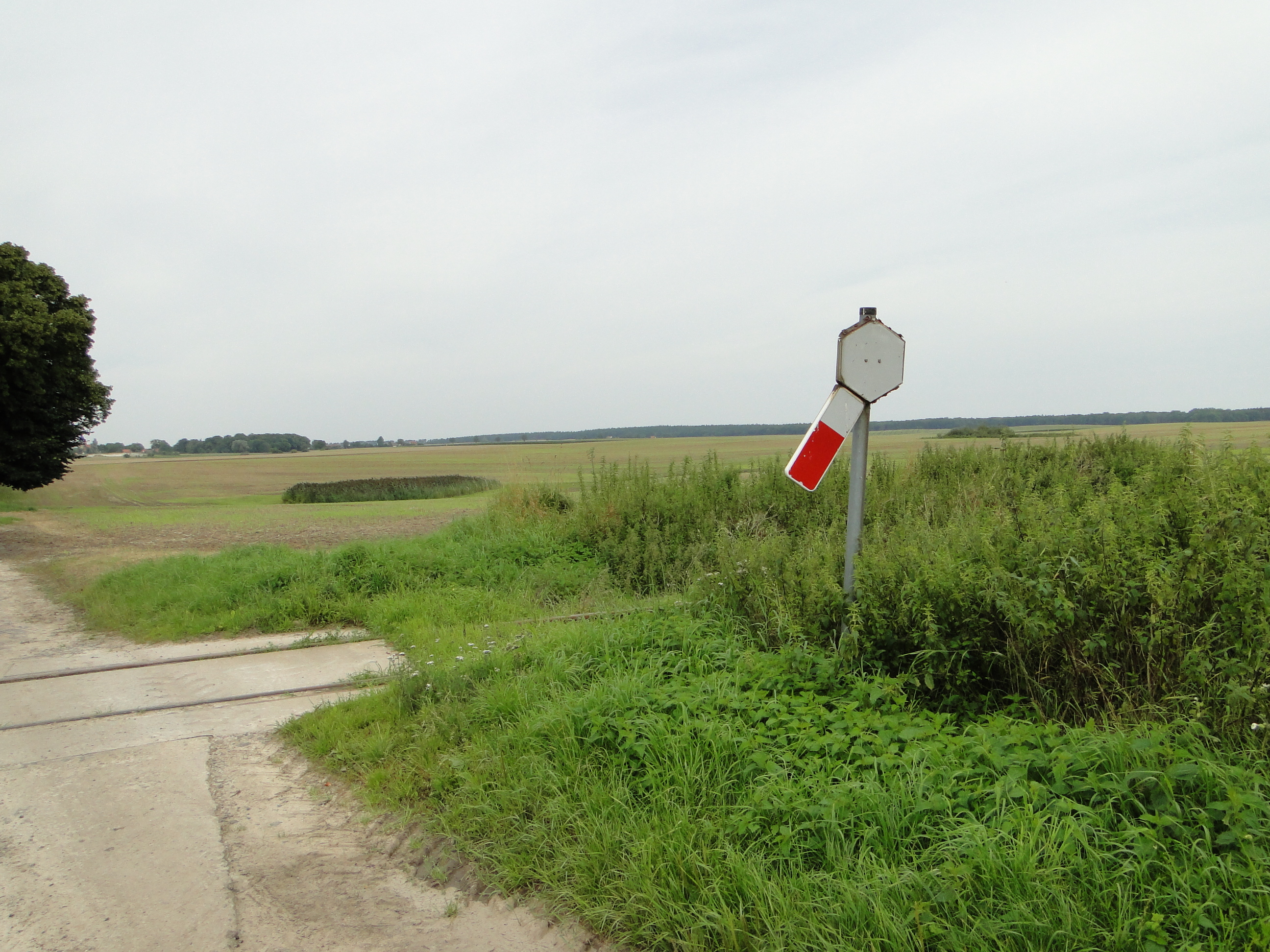 Railway line Neubrandenburg-Friedland at level crossing in Roggenhagen, district Mecklenburg-Strelitz, Mecklenburg-Vorpommern, Germany